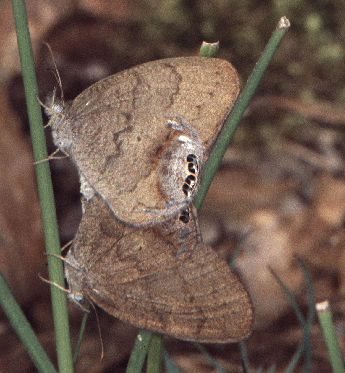 Gemmed satyr (Cyllopsis gemma), couple